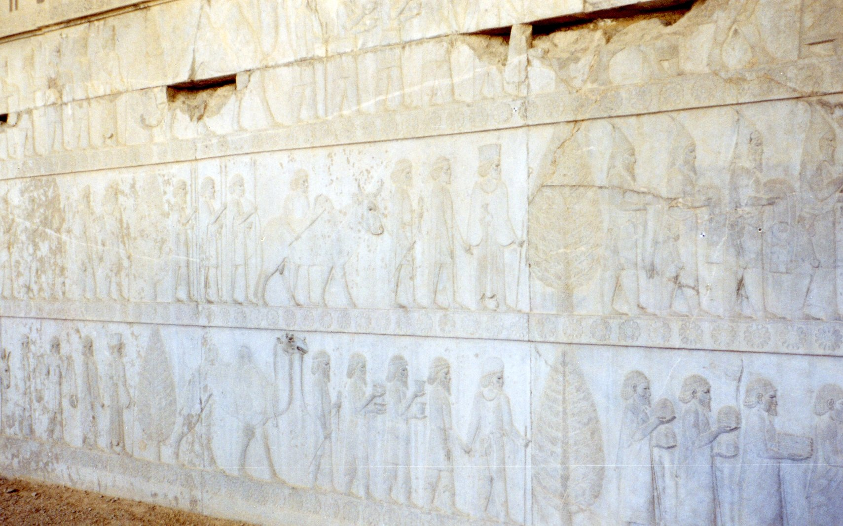 Delegations relief Picture Taken by myself Persepolis Iran April 2006